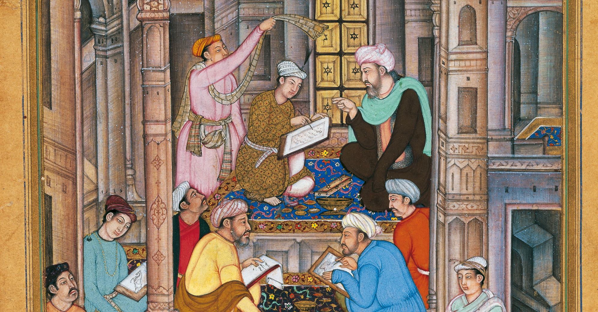 Artists and calligraphers at work. Mughal miniatures.